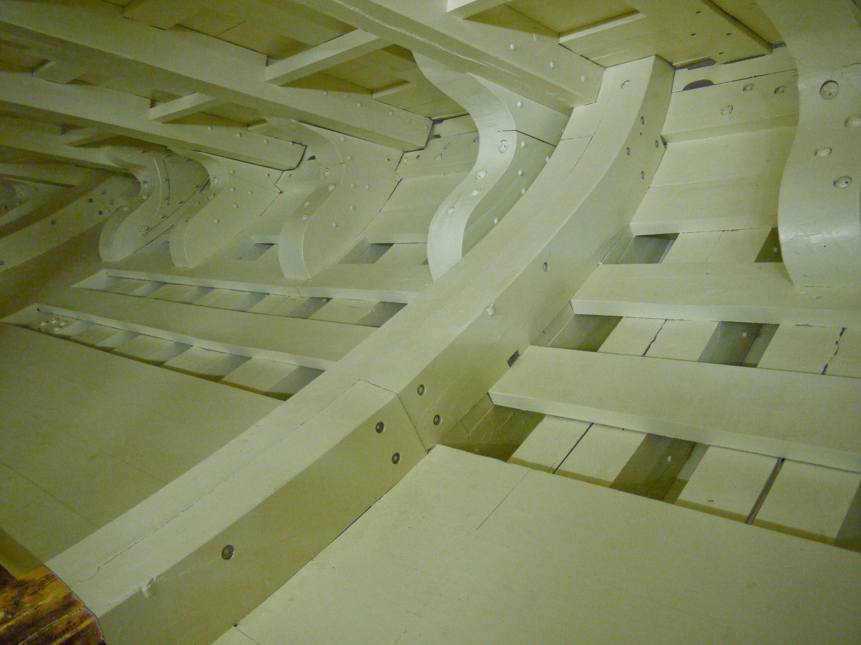 L´Hermione, building of replica of french frigate Hermione from 1779. Shipyard at Rochefort, France.